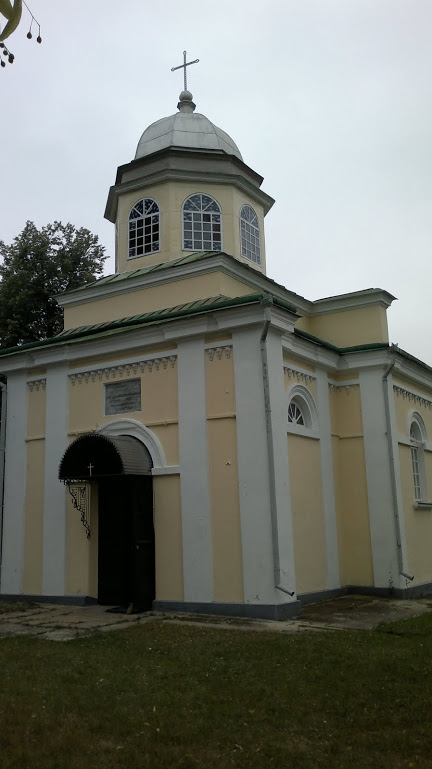 Catholic Charch in Kopievka village Tulchin district, Vinnitsa region, Ukraine.